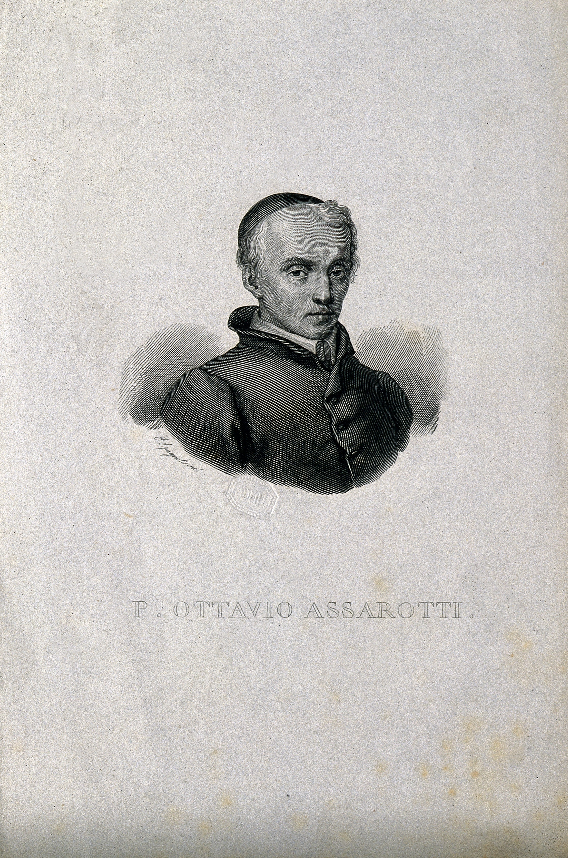 Ottavio Assarotti. Line engraving by F. Spagnoli. Iconographic Collections Keywords: portrait prints; engravings; assarotti, ottavio, 1753-1829; Ottavio Assarotti